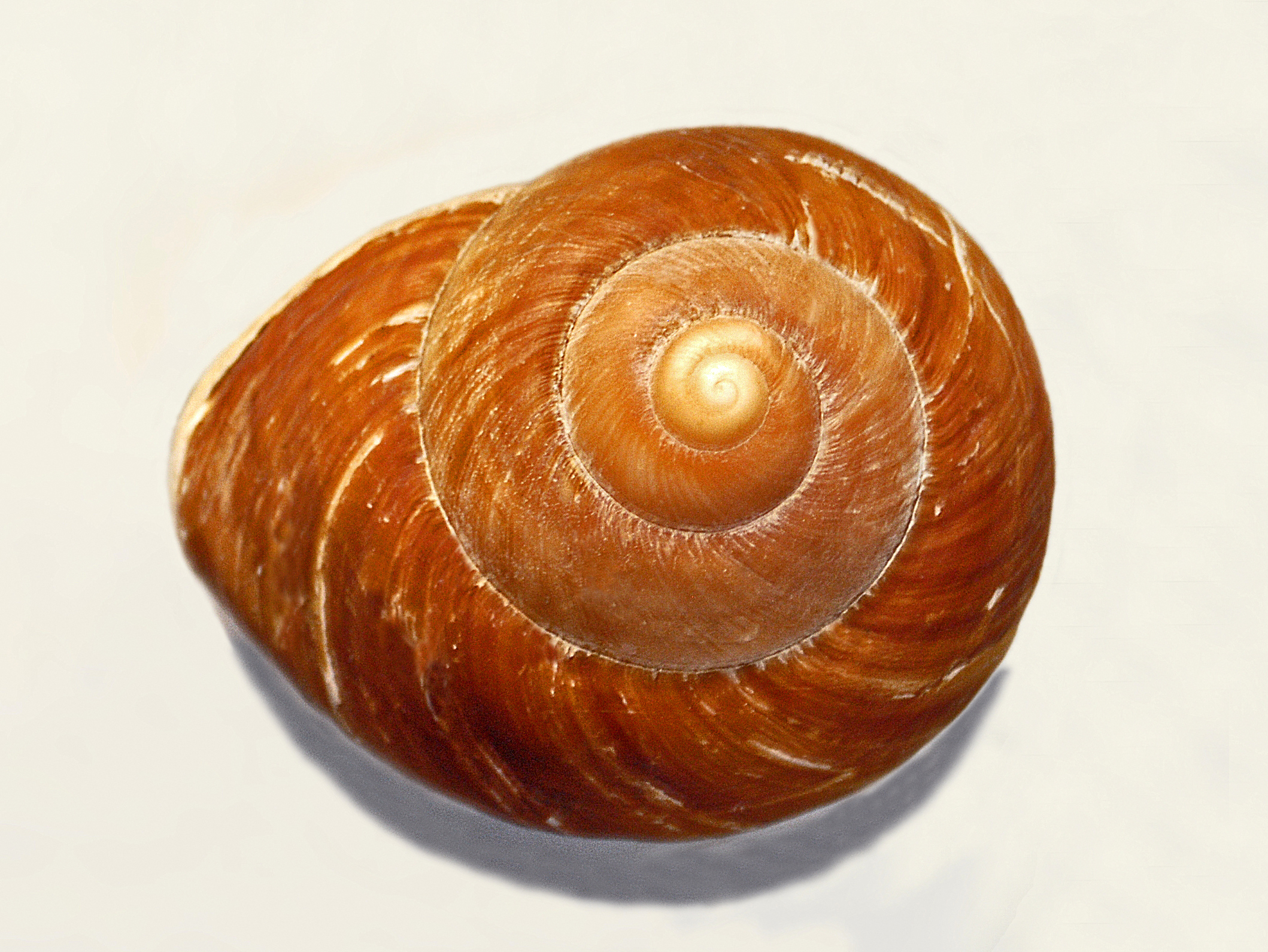 Shell of Ryssota ovumon display at the Museo Civico di Storia Naturale di Milano